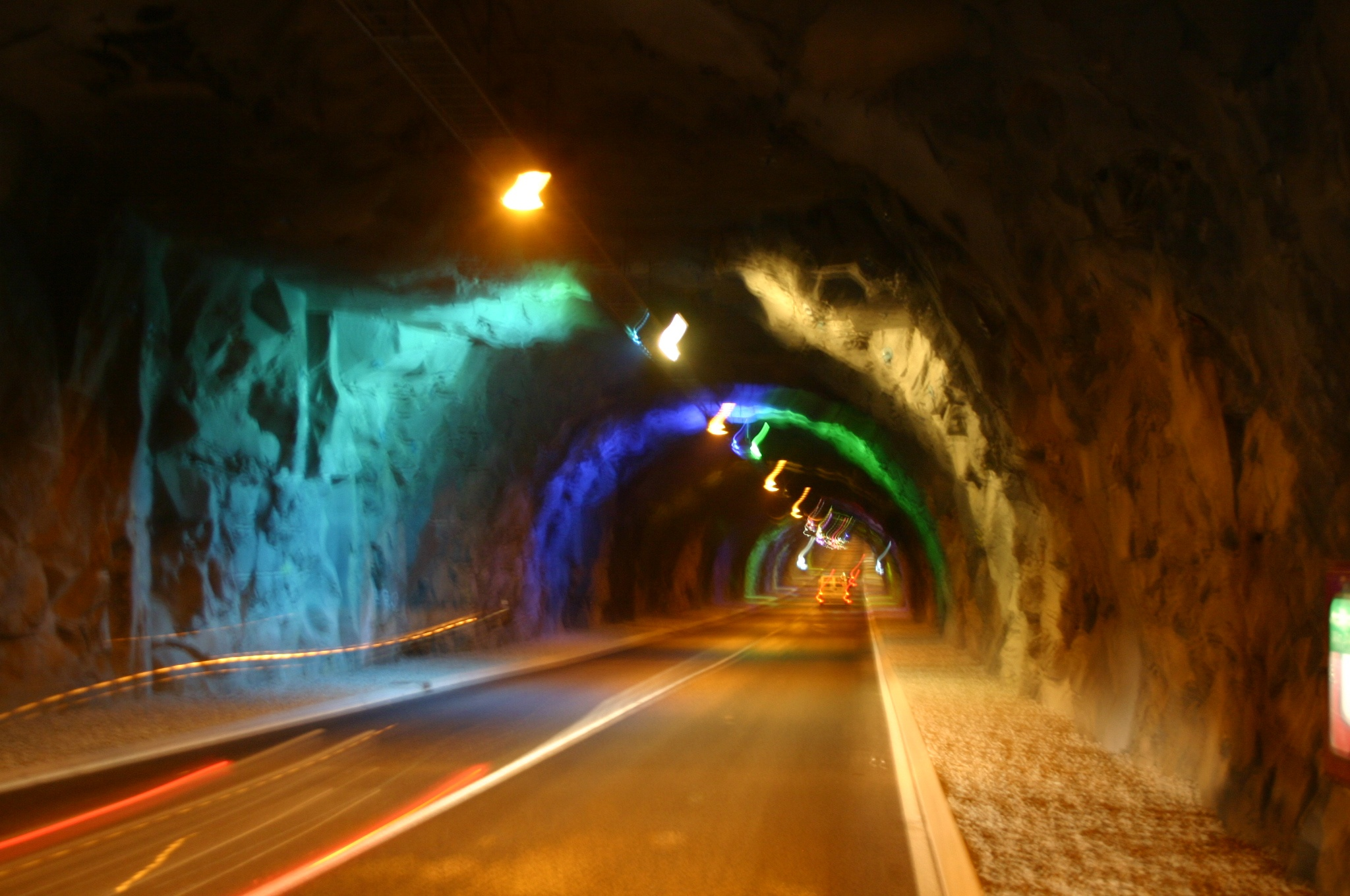 Norðoyatunnilin, Faroe Islands. Light art by Tróndur Patursson